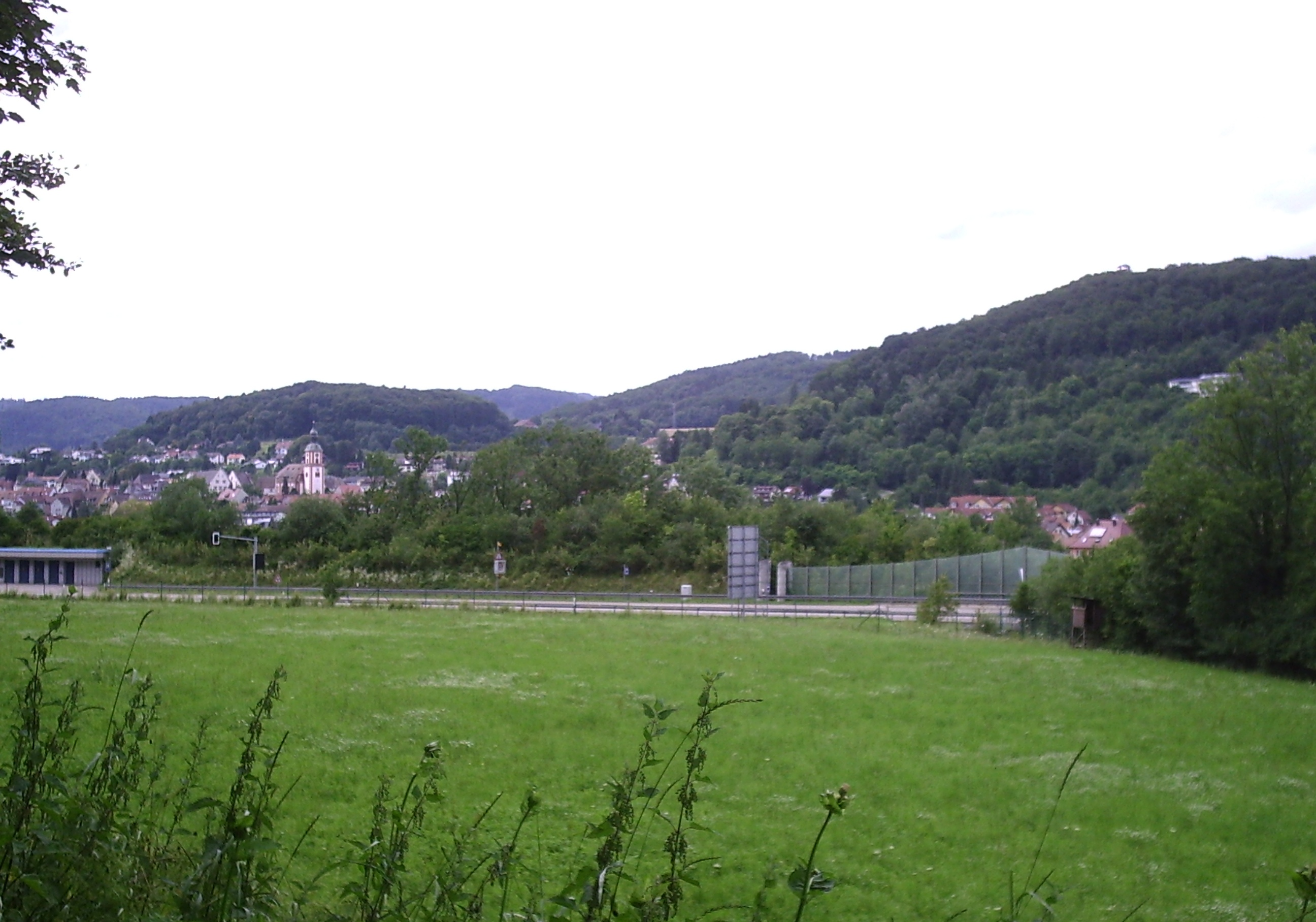 Tiengen, im Hintergrund Glockenberg, rechts Vitibuck